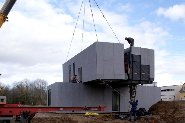 CG Architectes, Crossbox, Modular Housing, construction in progress